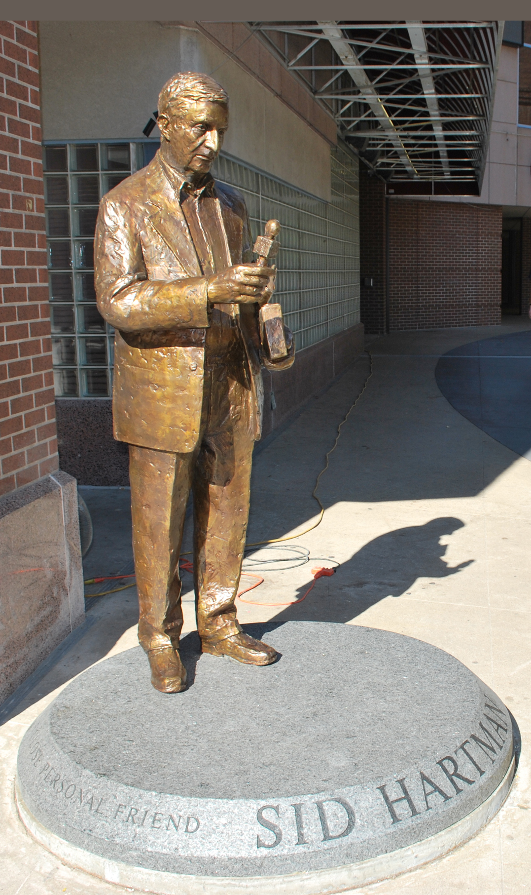 Sid Hartman, installed in the original location (Target Center, Minneapolis, MN)